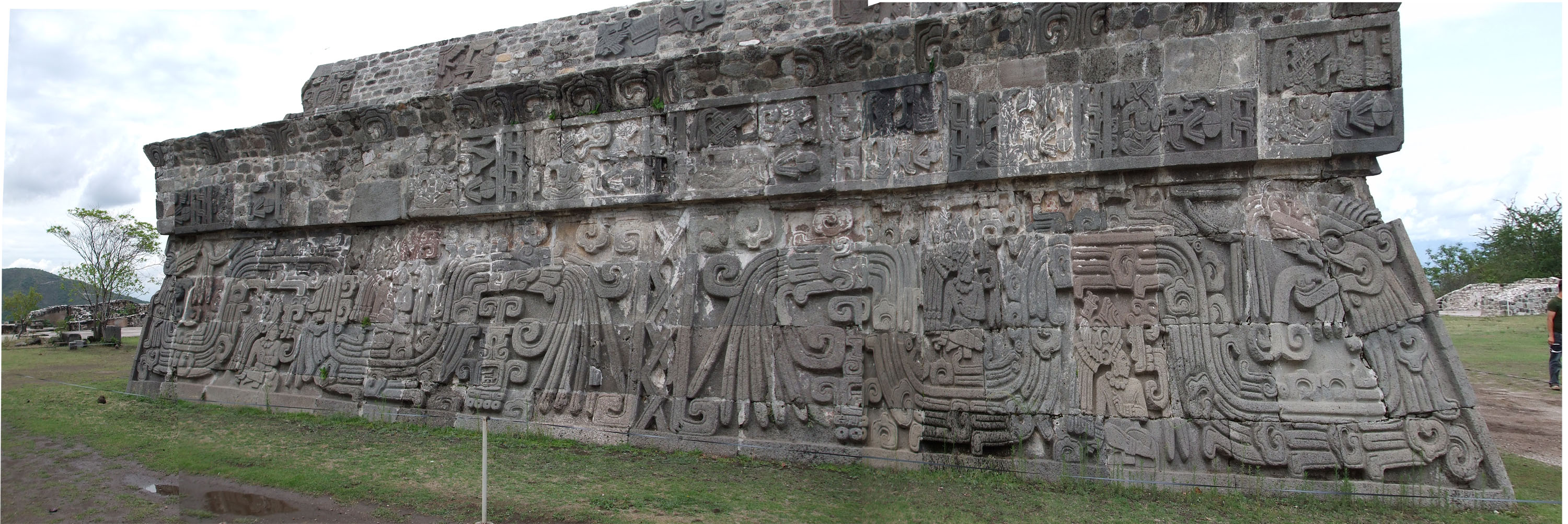 Xochicalco temple of the plumed serpent